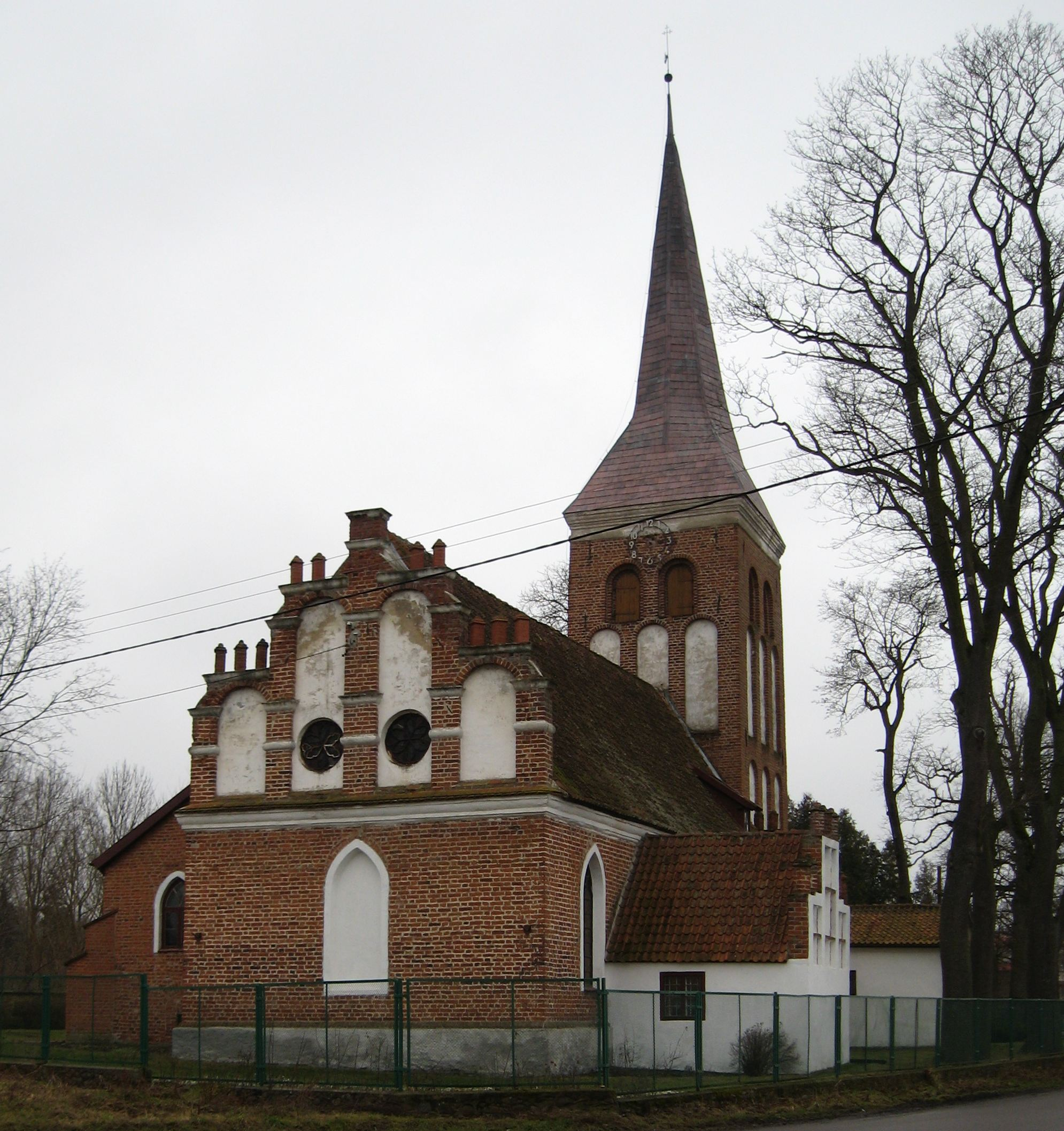 The village Drogosze (Groß Wolfsdorf) in Poland